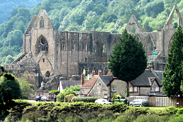 Tintern Abbey from North-northwest. From across the river Wye, near the old railway bridge.